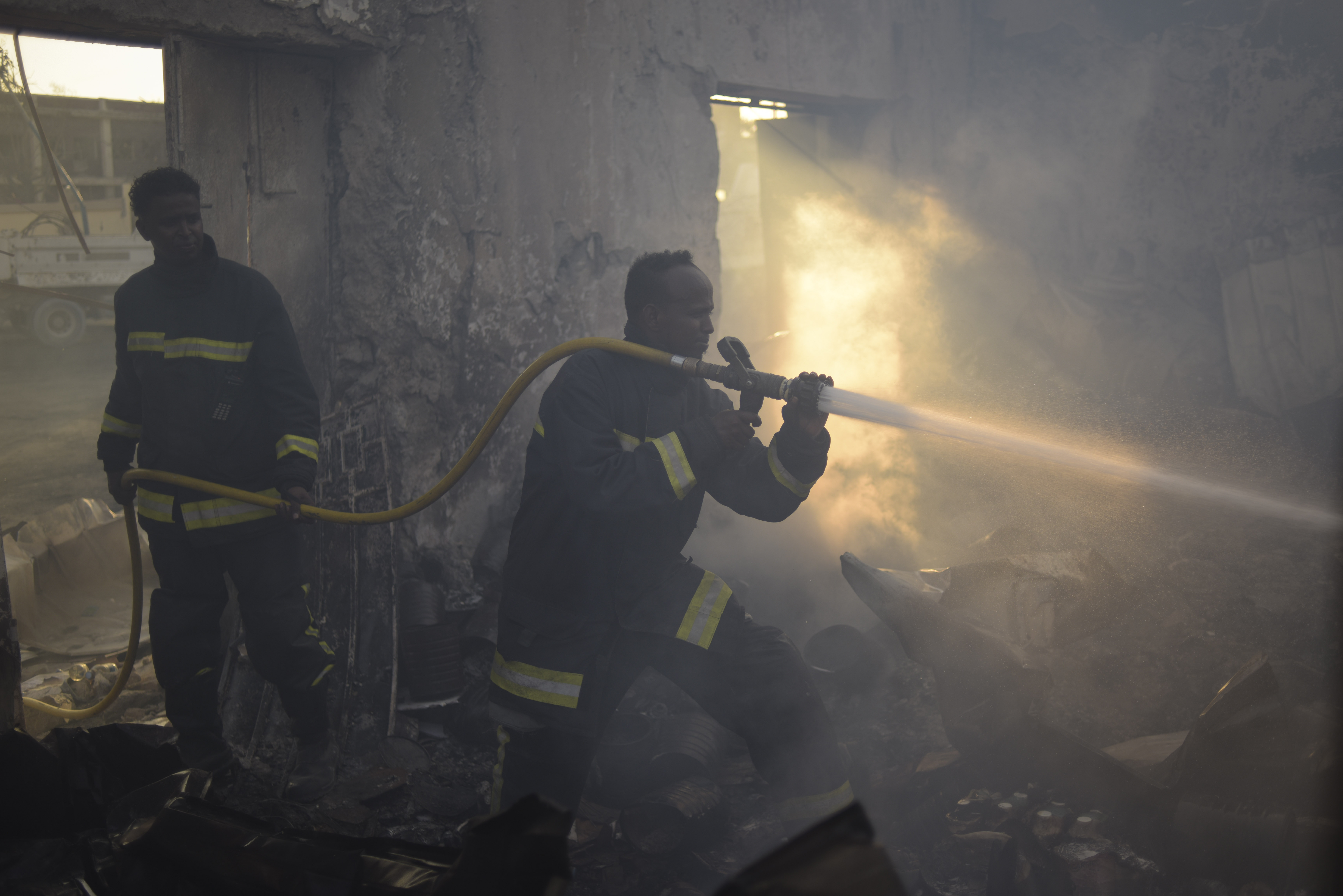 The African Union Mission in Somalia's Ugandan Contingent Commander, Brigadier General Kayanja Muhanga, visits the site of a VBIED attack conducted by the militant group al Shabaab in the Somali capital of Mogadishu on October 15, 2017